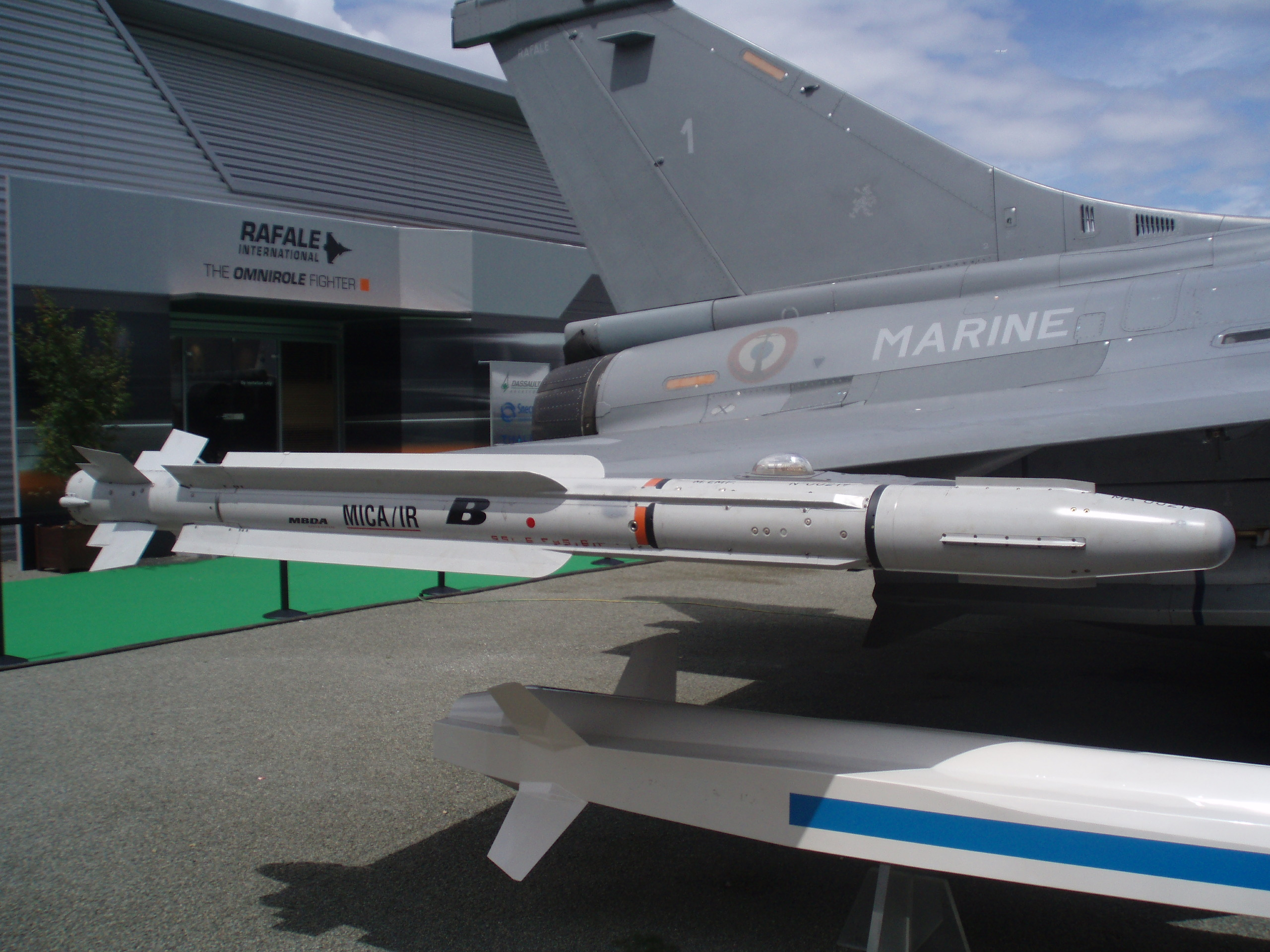 Picture of the Mica Missile